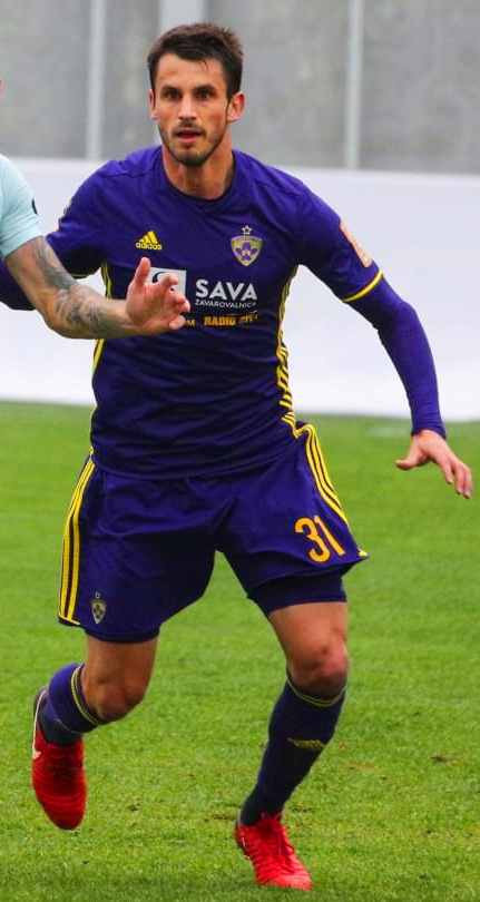 10.02.2018. Турция, Анталия, стадион «Мардан». Вторые зимние «Газпром» — тренировочные сборы: товарищеский матч «Зенит» — «Марибор».